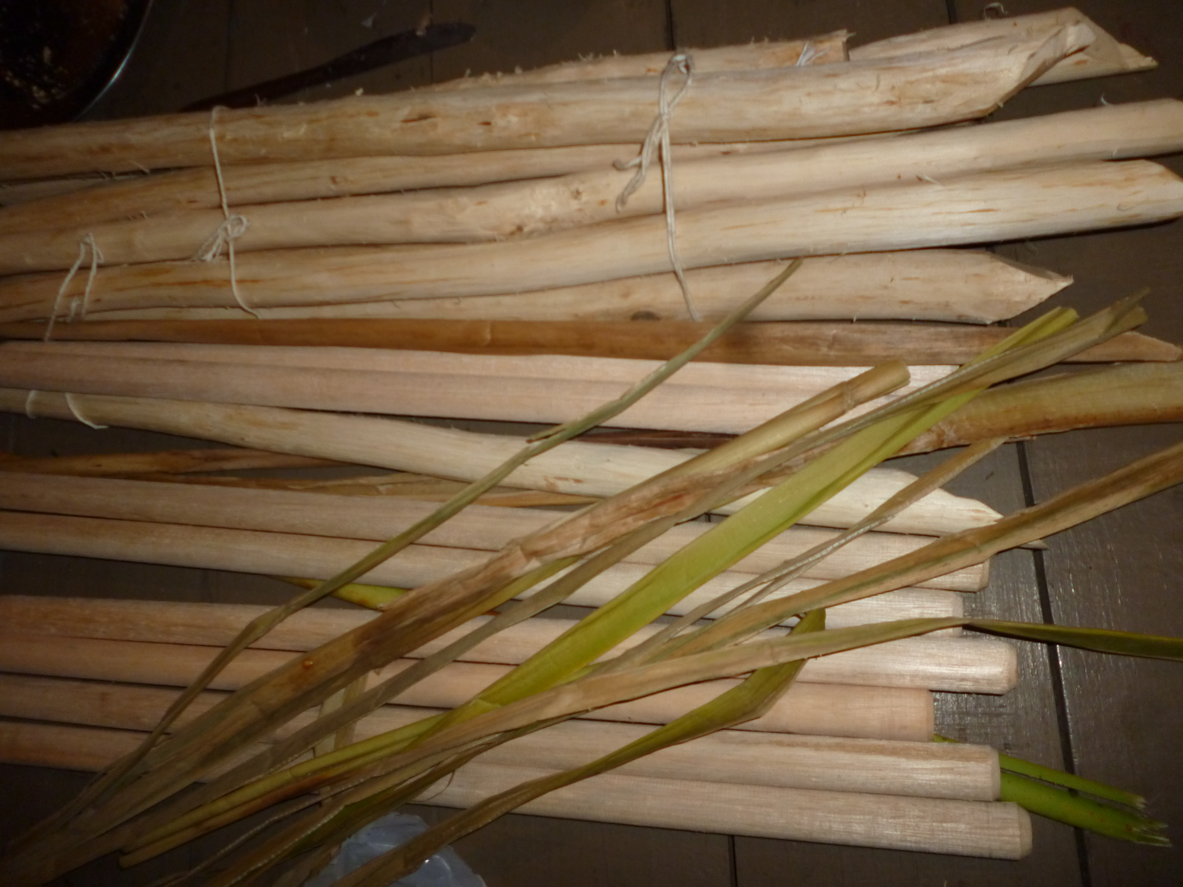 Espeto de Rojão is a regional cultural tipic food from Ribeirão Grande city, in São Paulo's State, Brazil